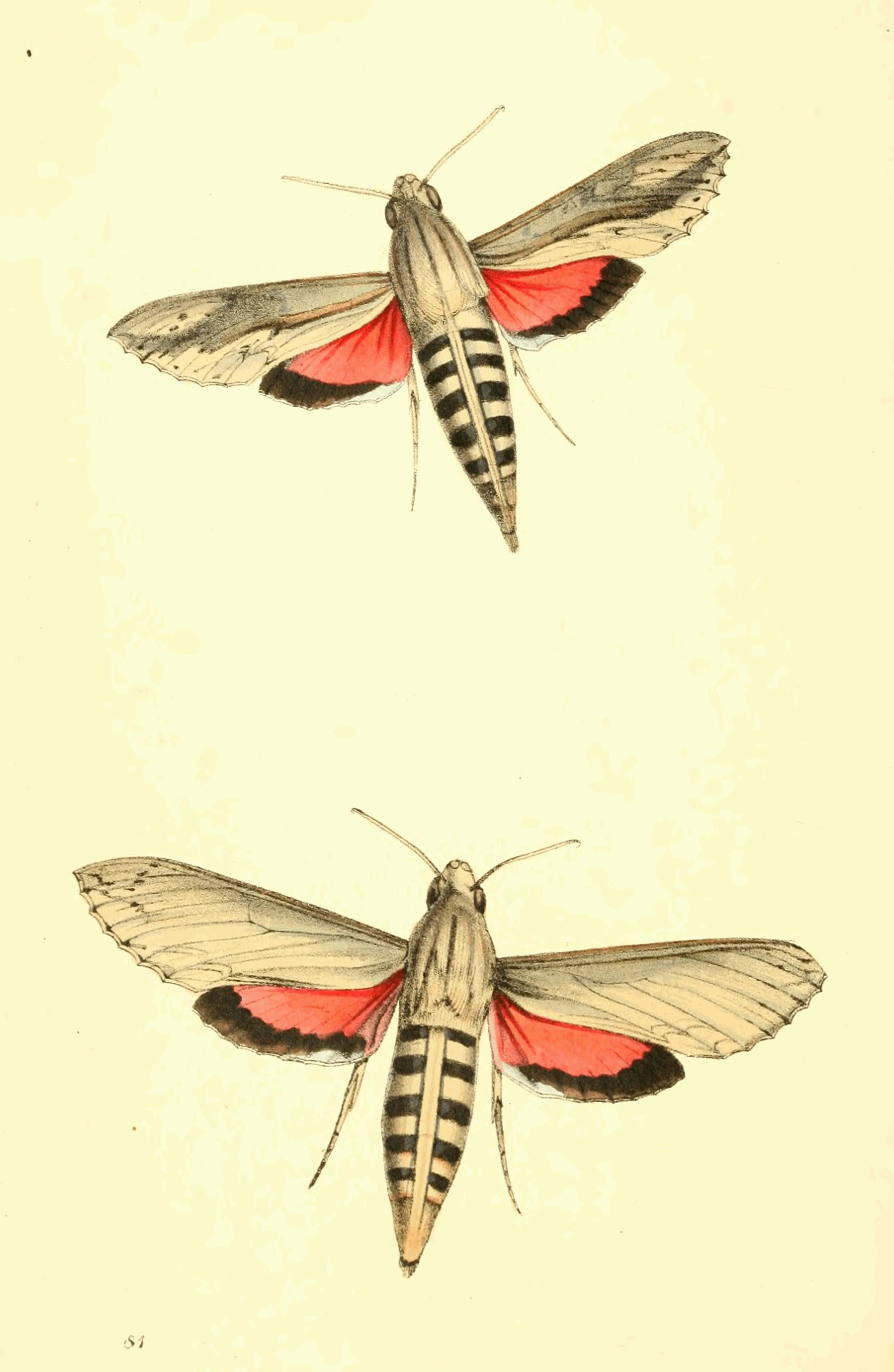 Plate 81. Sphinx Ello (upper, male; lower, female). Modern accepted name (2012) is Erinnyis ello[1].